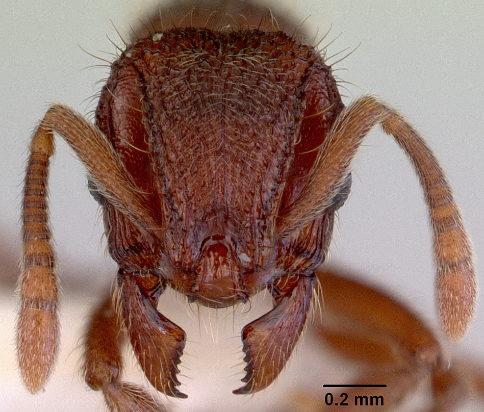 Head view of ant Lordomyrma azumai specimen casent0172483.